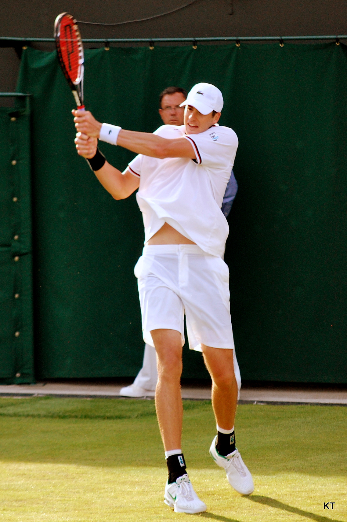 John Isner during his first round match with Alejandro Falla on Day 1 of Wimbledon 2012. Falla won in 5 sets: 6-4, 6-7, 3-6, 7-6, 7-5.